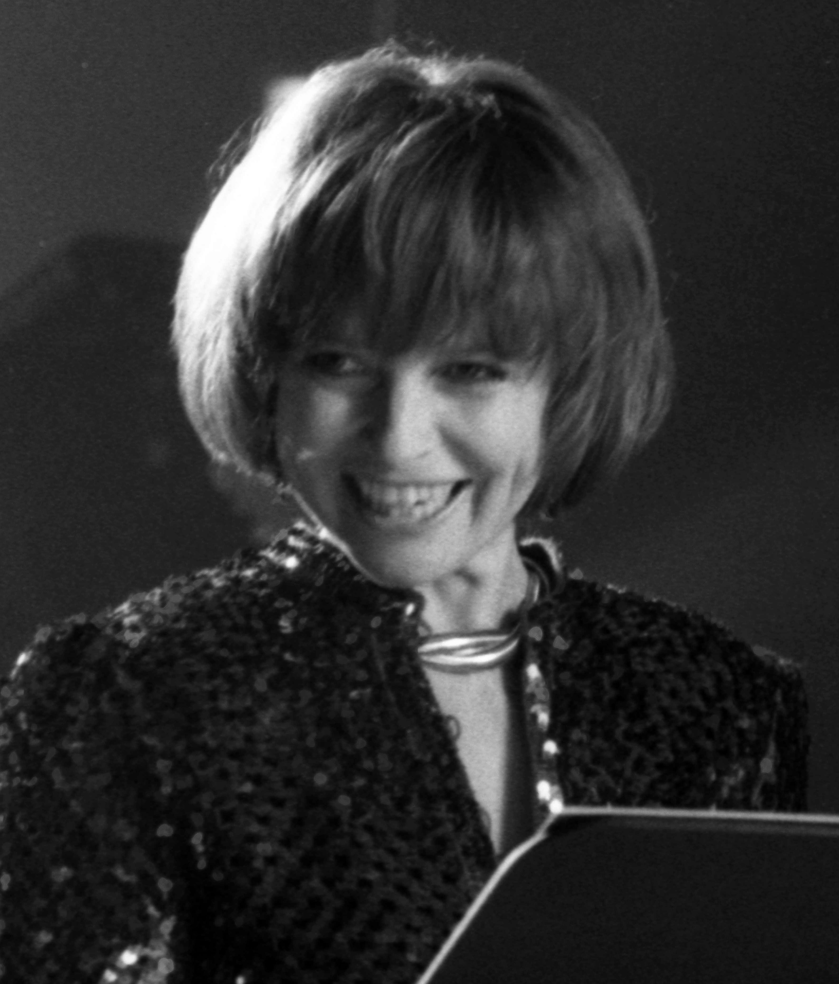 Kasey Cisyk. Filming "Have You Driven a Ford Lately?" in Denver, Colorado.